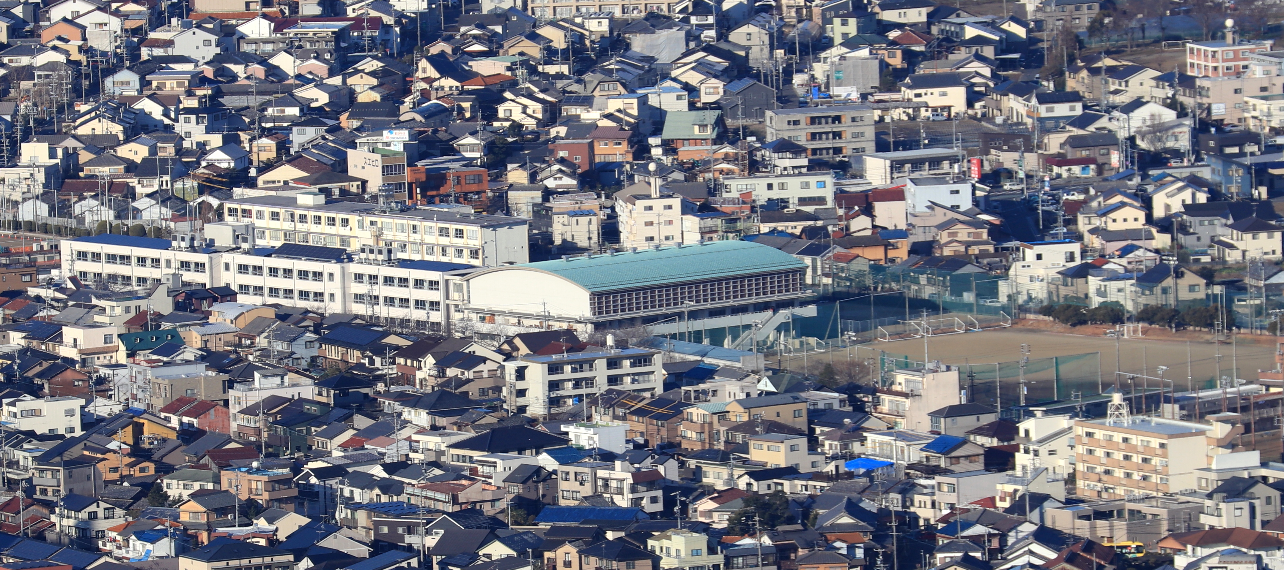 Gifu Prefectural Gifukita High School seen from Mount Kinka in Gifu City, Gifu Prefecture, Japan.